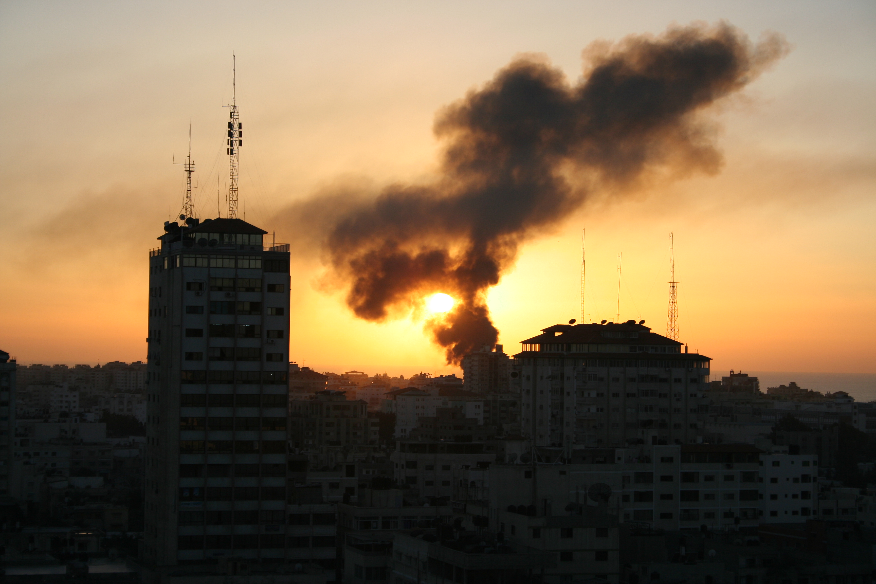 The sun sets on another day in Gaza while the skyline burned... at one point in every direction we looked out, we could see smoke billowing into the Gaza skyline